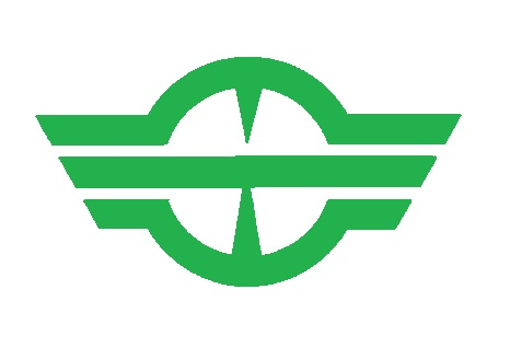 Flag of Ie Okinawa